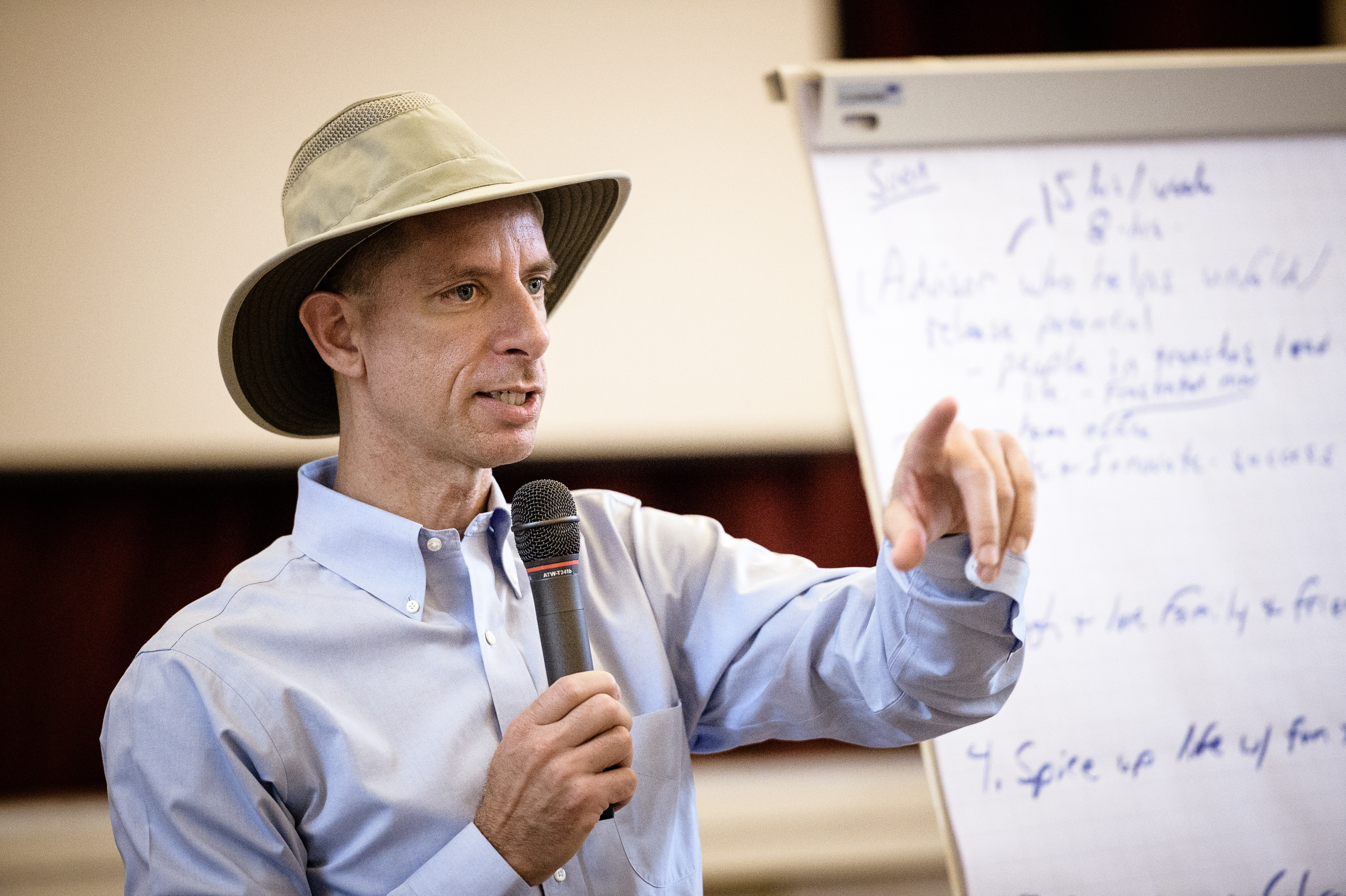 Best-selling author and creator of the Big Five for Life concept